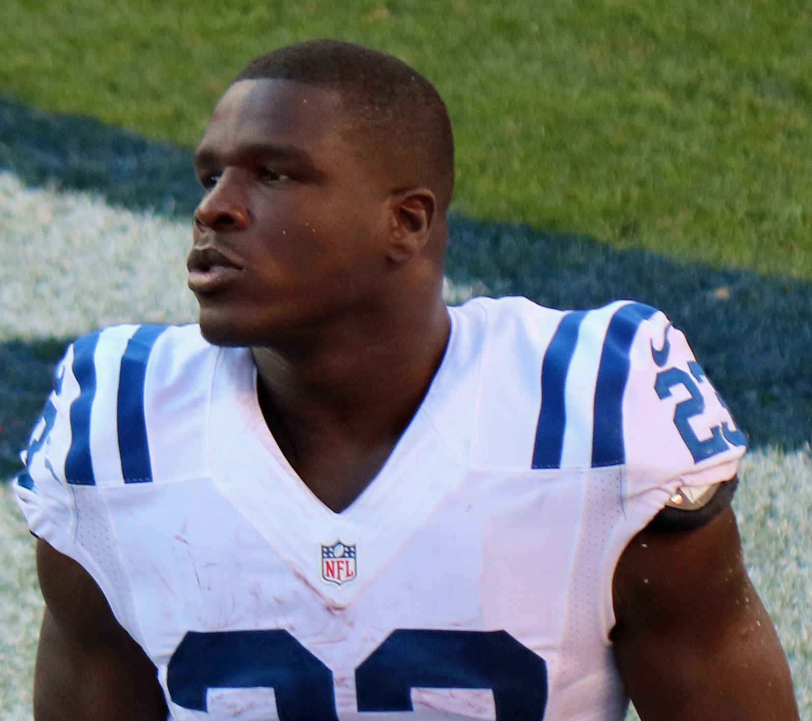 Frank Gore, a player on the National Football League.